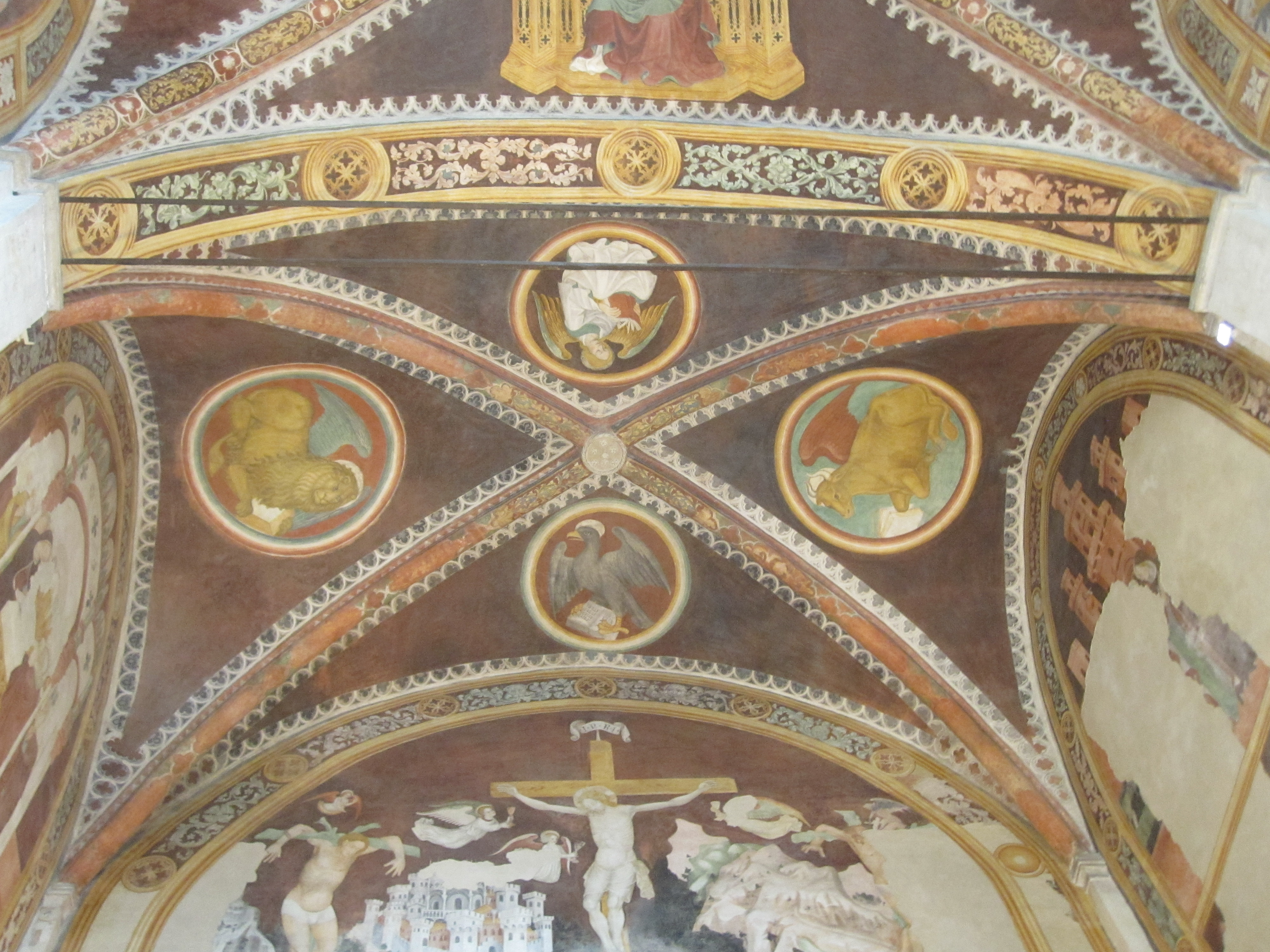 Four Evangelist, Cappella degli Innocenti, Chiesa di Santa Caterina, Treviso (IT)